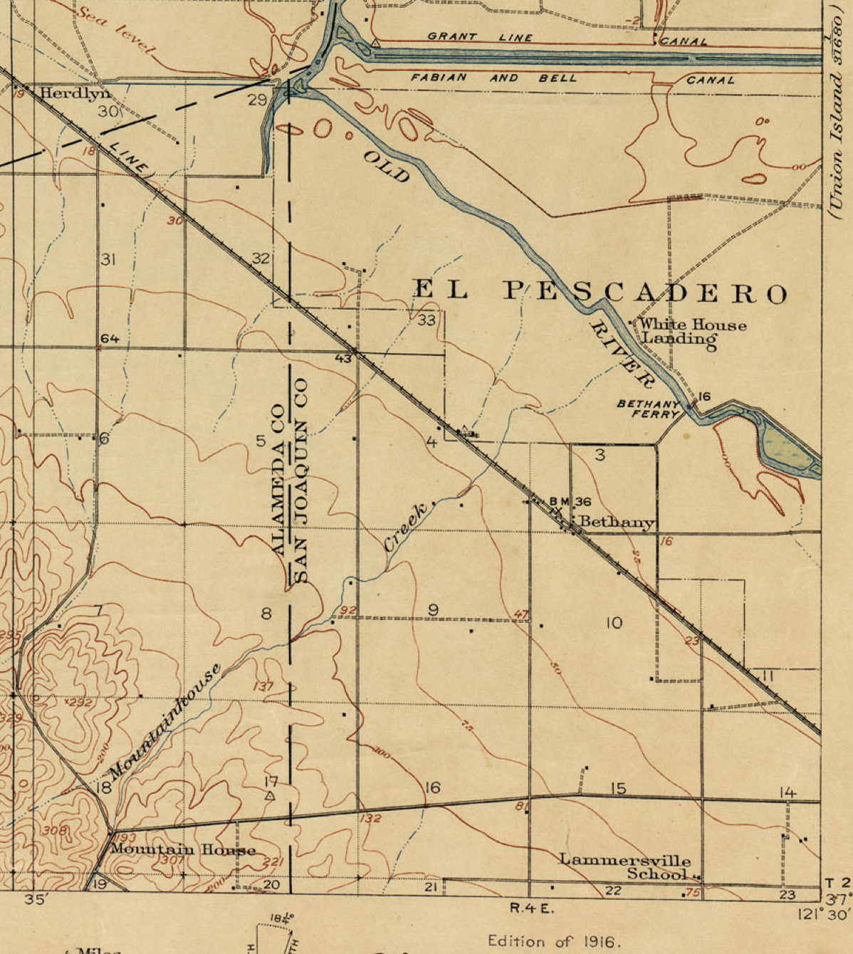 This is the southeast portion of the USGS Topo Map of 1916 for the Byron Quadrangle, California.